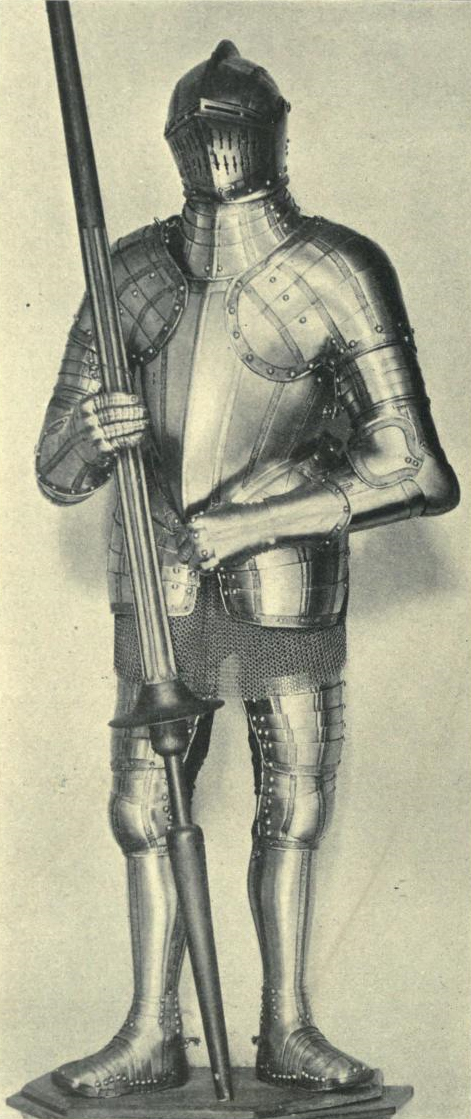 Photograph of Sir Henry Lee's suit of armour at the Armourers and Brasiers' Company Hall